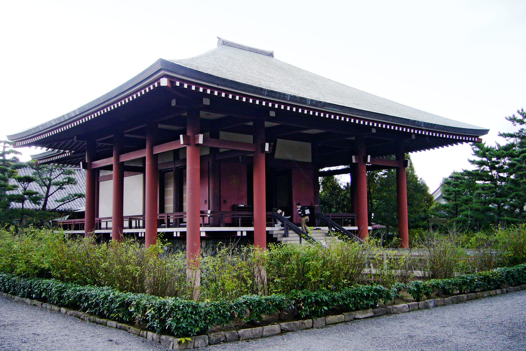 Chugu-ji in Ikaruga, Nara prefecture, Japan